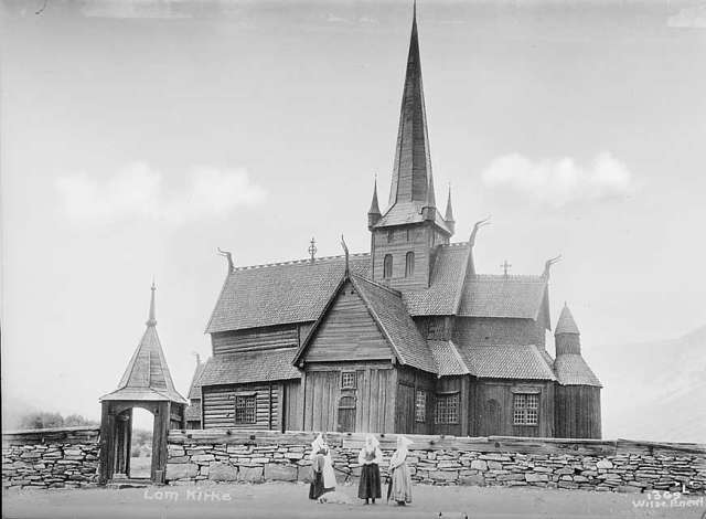 Lom stavkyrkje (Lom stave church, Lom, Oppland, Norway). Picture taken in the periode 1880 - 1890.